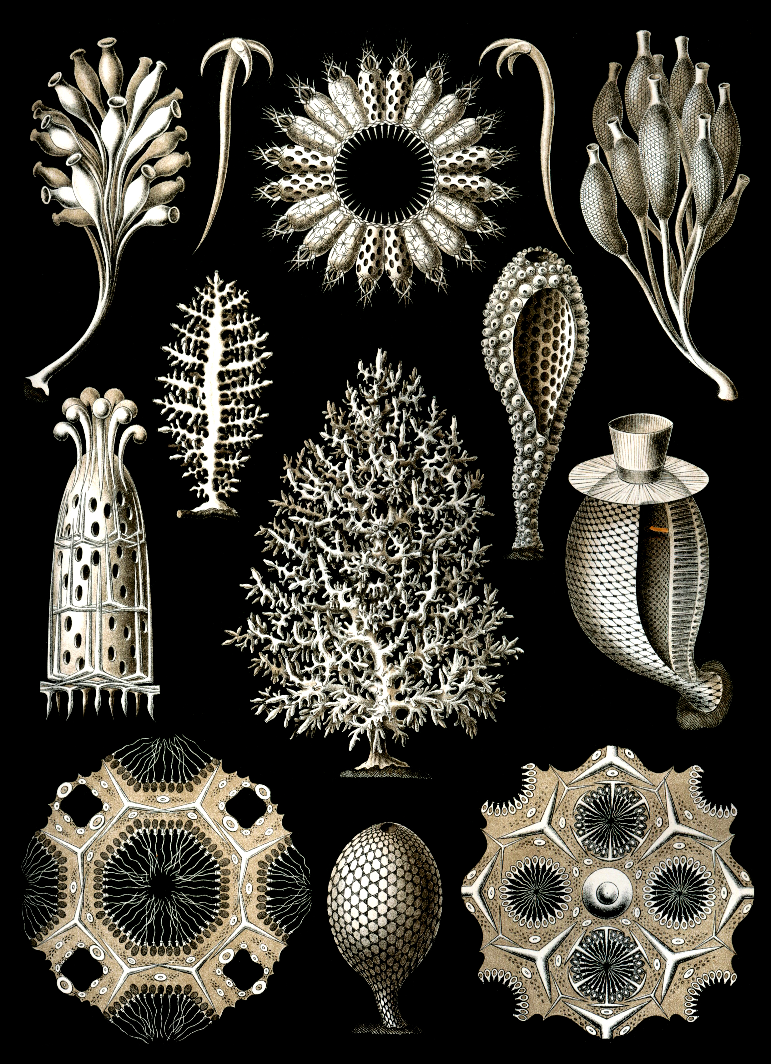 See here for index to numbers. Ascandra pinus (Haeckel) = Leucosolenia complicata (Montagu, 1818), habitus Ascandra sertularia (Haeckel) = Leucosolenia sertularia (Haeckel, 1872), habitus Ascilla gracilis (Haeckel) = Guancha gracilis (Haeckel, 1872), habitus Syculmis synapta (Haeckel) = Amphoriscus synapta (Schmidt in Haeckel, 1872), rooting spicule (genus Amphoriscus) Syculmis synapta (Haeckel) = Amphoriscus synapta (Schmidt in Haeckel, 1872), rooting spicule (genus Amphoriscus) Sycurus primitivus (Haeckel) = Sycettaga primitiva (Haeckel, 1872), habitus (cut open) (genus Sycettaga) Sycodendron ampulla (Haeckel) = Sycon ampulla (Haeckel, 1870), habitus (genus Sycon) Sycarium elegans (Haeckel) = Sycon elegans (Bowerbank, 1845), habitus (cut open) (genus Sycon) Sycortis quadrangulata (Haeckel) = Sycon quadrangulatum (Schmidt, 1868), lengthwise section of body wall (genus Sycon) Sycandra compressa (Haeckel) = Grantia compressa (Fabricius, 1780), skeleton of wall tube Sycarium elegans (Haeckel) = Sycon elegans (Bowerbank, 1845), lengthwise section of body wall (genus Sycon) Sycaltis perforata (Haeckel) = Amphoriscus perforatus (Haeckel, 1872), lengthwise section of body wall (genus Amphoriscus) Sycetta strobilus (Haeckel) = Grantia strobilus (Haeckel, 1872), habitus (genus Grantia)